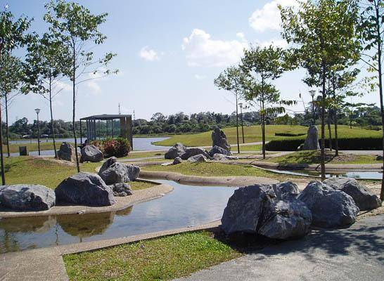 Permai Lake Garden in Sibu, Sarawak, Malaysia.